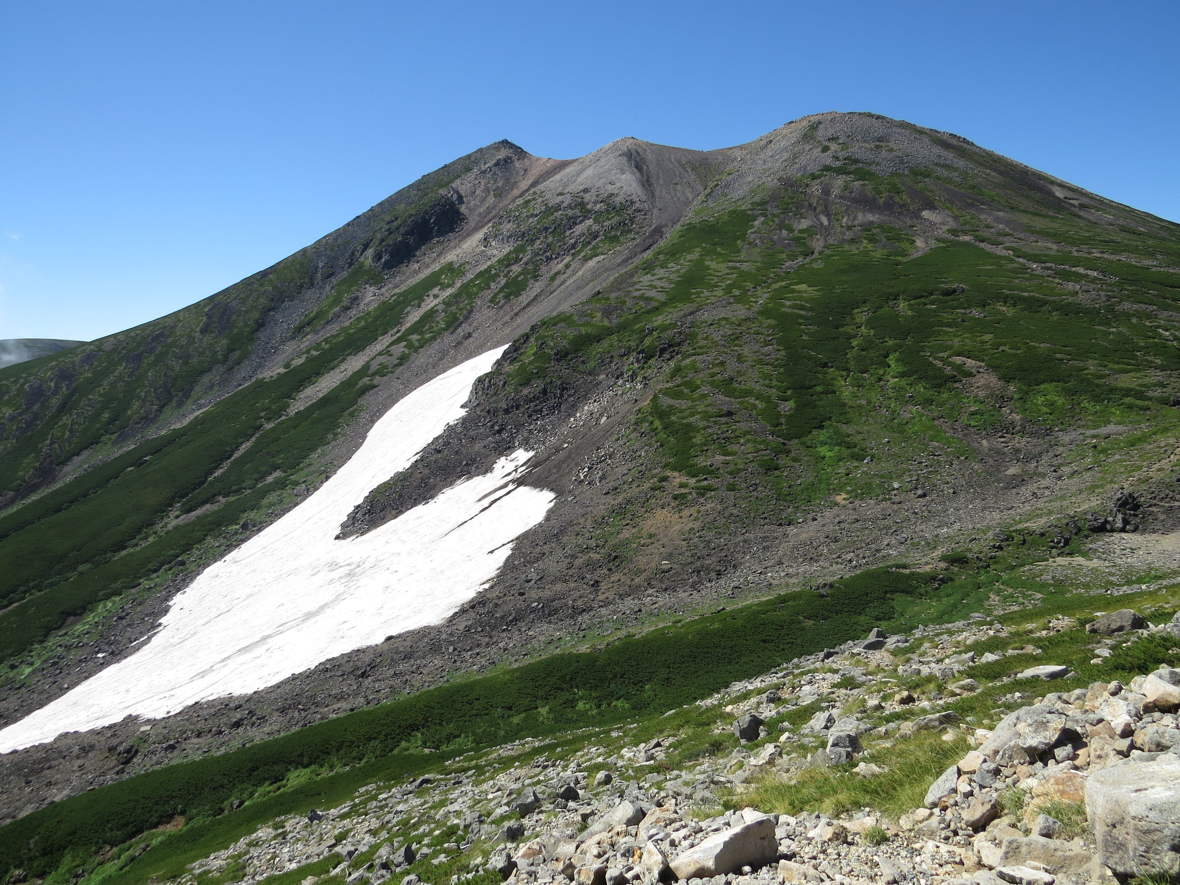 Mount Norikura (3,026m) in Japan.